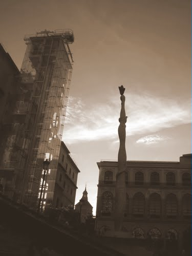 A black and white photograph Reina Sofia Museum Madrid Spain